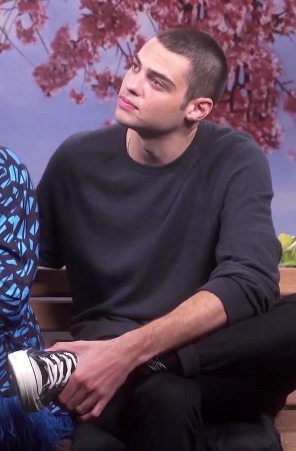 Interview with actors from the movie To All the Boys: P.S. I Still Love You, Lana Condor (Lara Jean) and Noah Centineo (Peter Kavinsky).